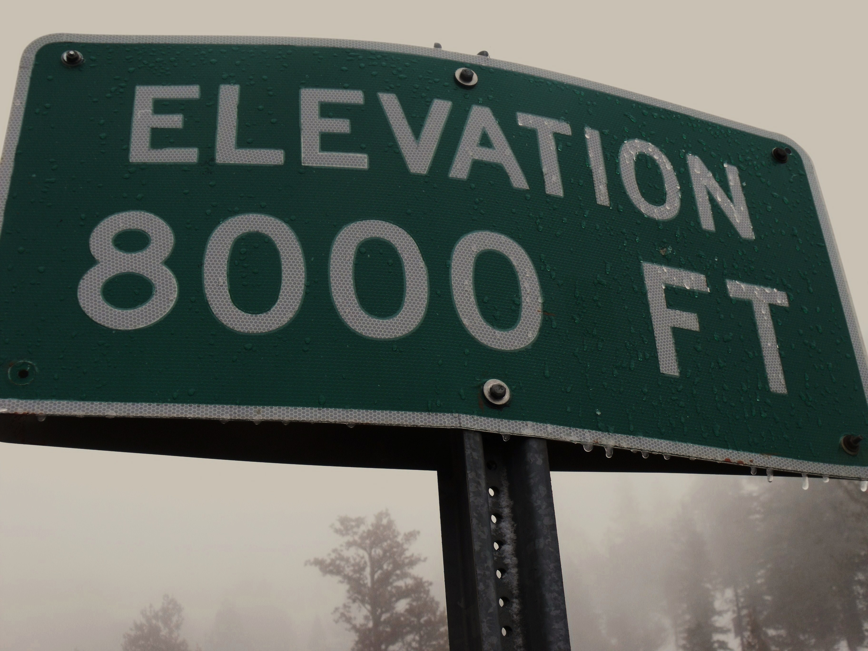 The sign at an elevation of 8000 feet in the San Bernardino Mountains.